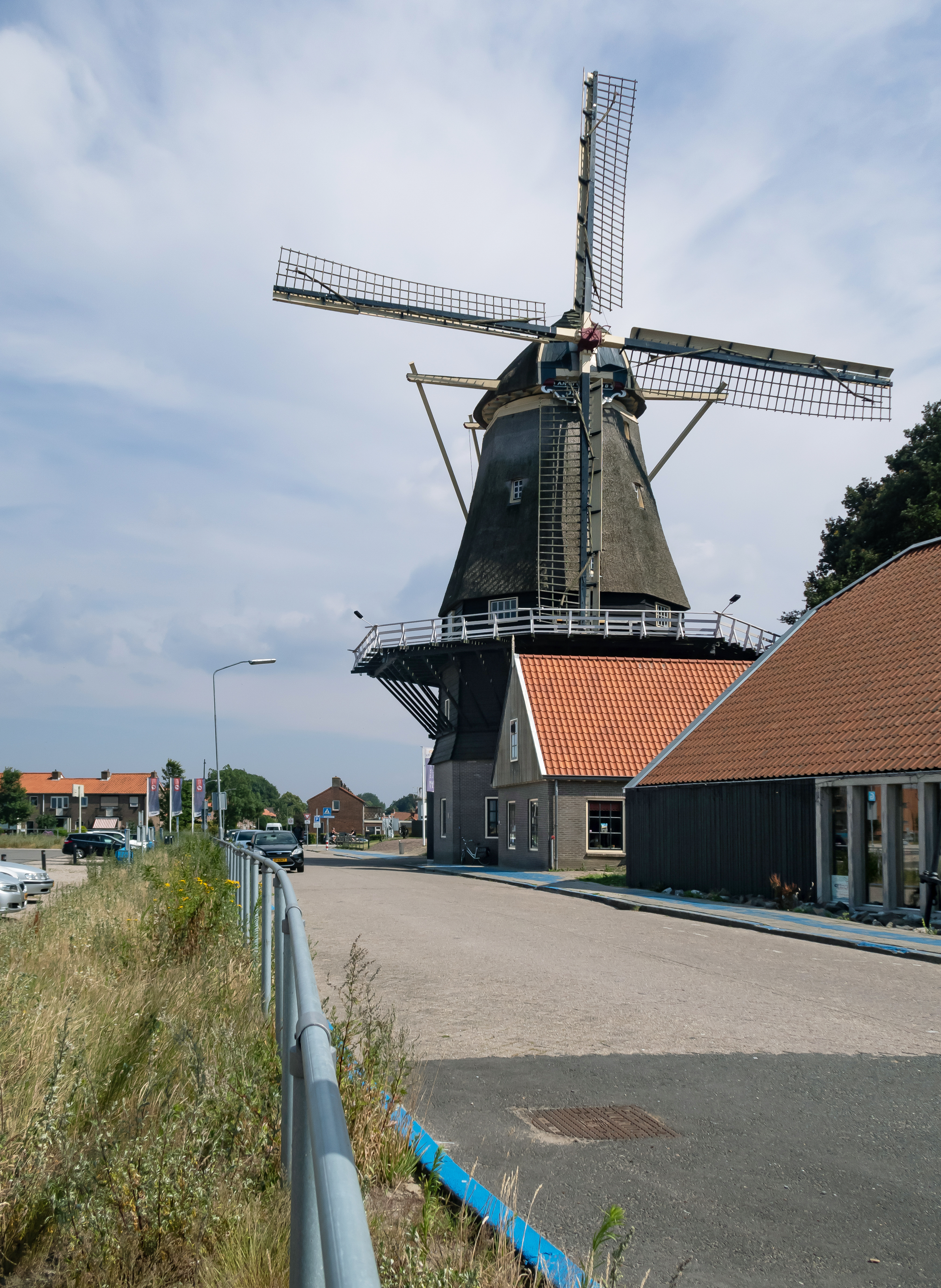 Harderwijk, windmill: windkorenmolen De Hoop